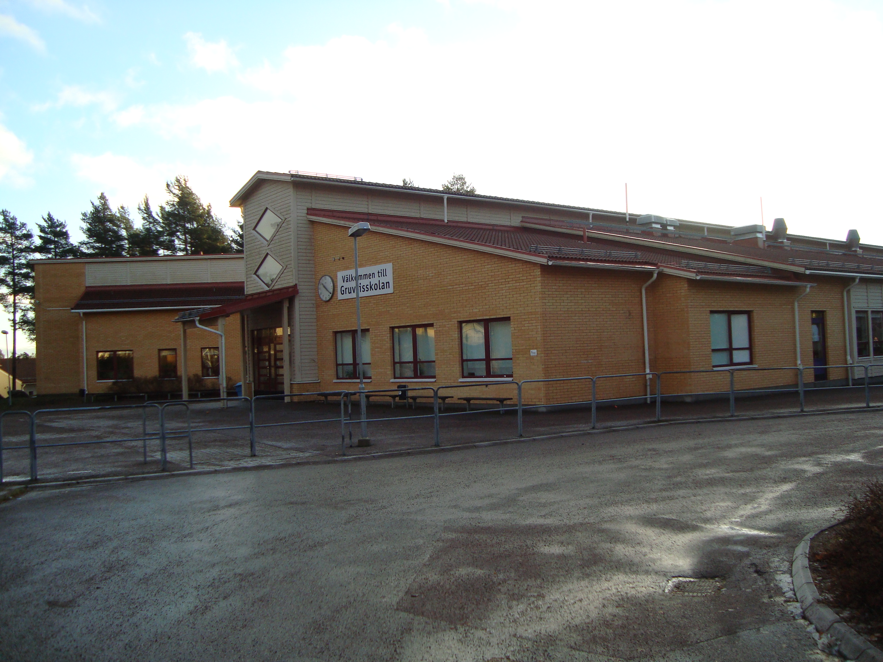 School of Gruvriset, Falun, Sweden